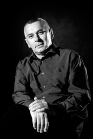 Miroslav Fabri, actor of the Serbian National Theatre Srpski (latinica): Miroslav Fabri, glumac Srpskog narodnog pozorišta Српски (ћирилица): Мирослав Фабри, глумац Српског народног позоришта